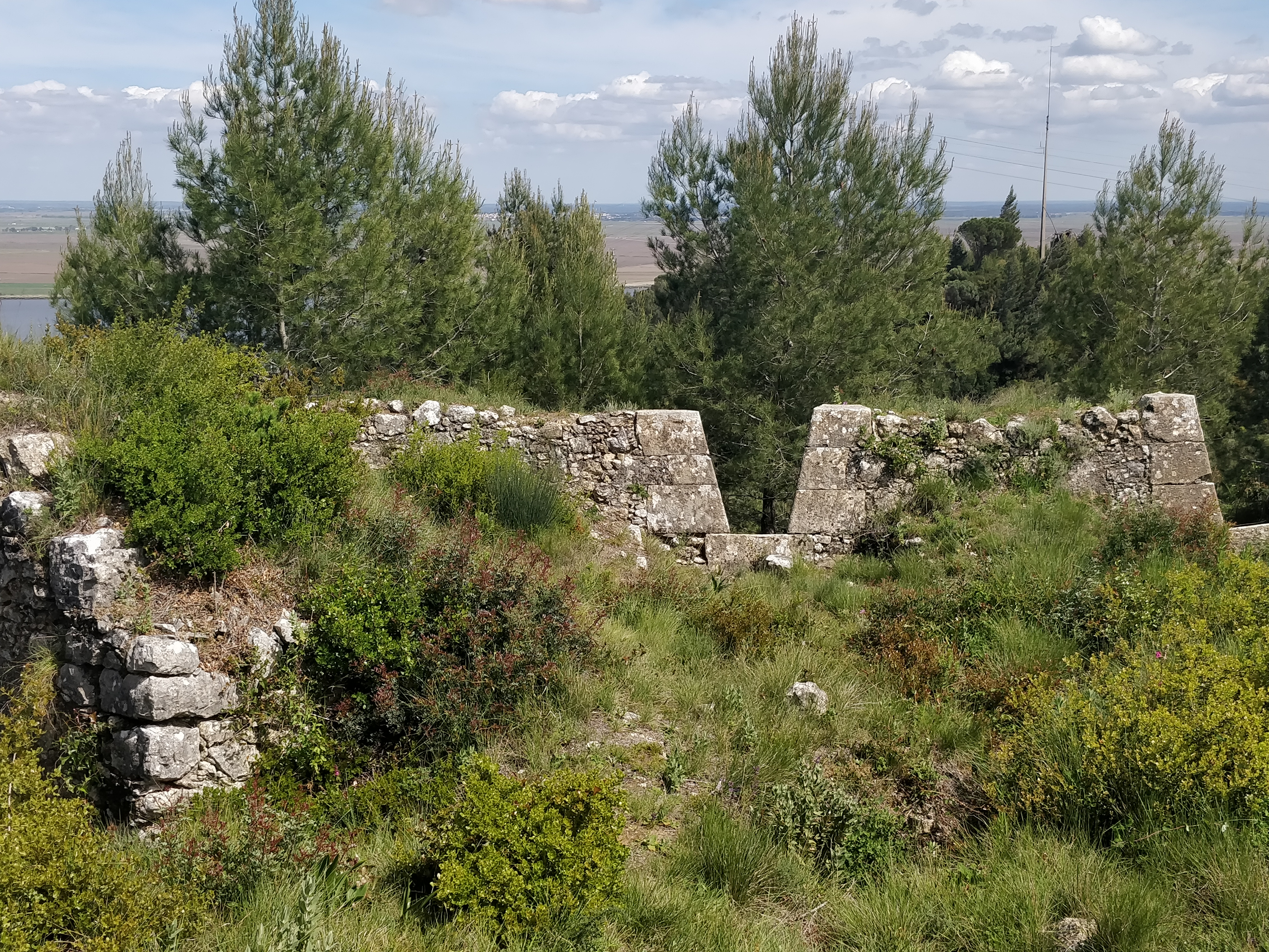 The Fort of Subserra, also known as the Fort of Alhandra, is situated just north of Lisbon, Portugal